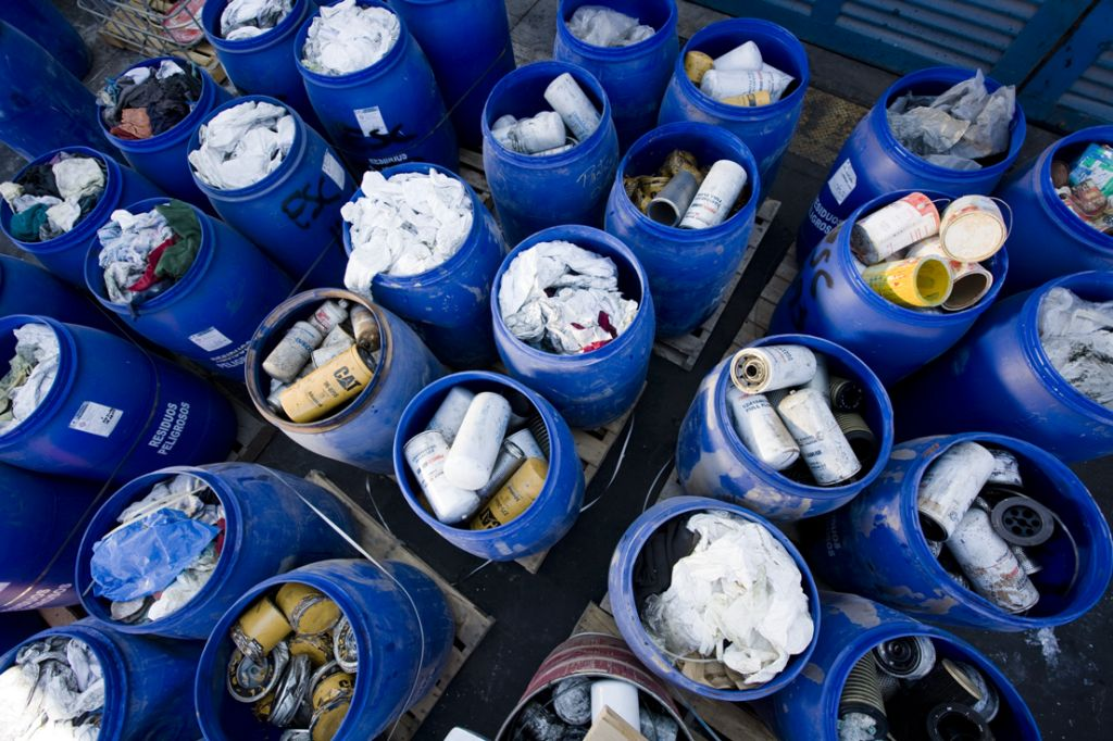 image used in co-processing wiki